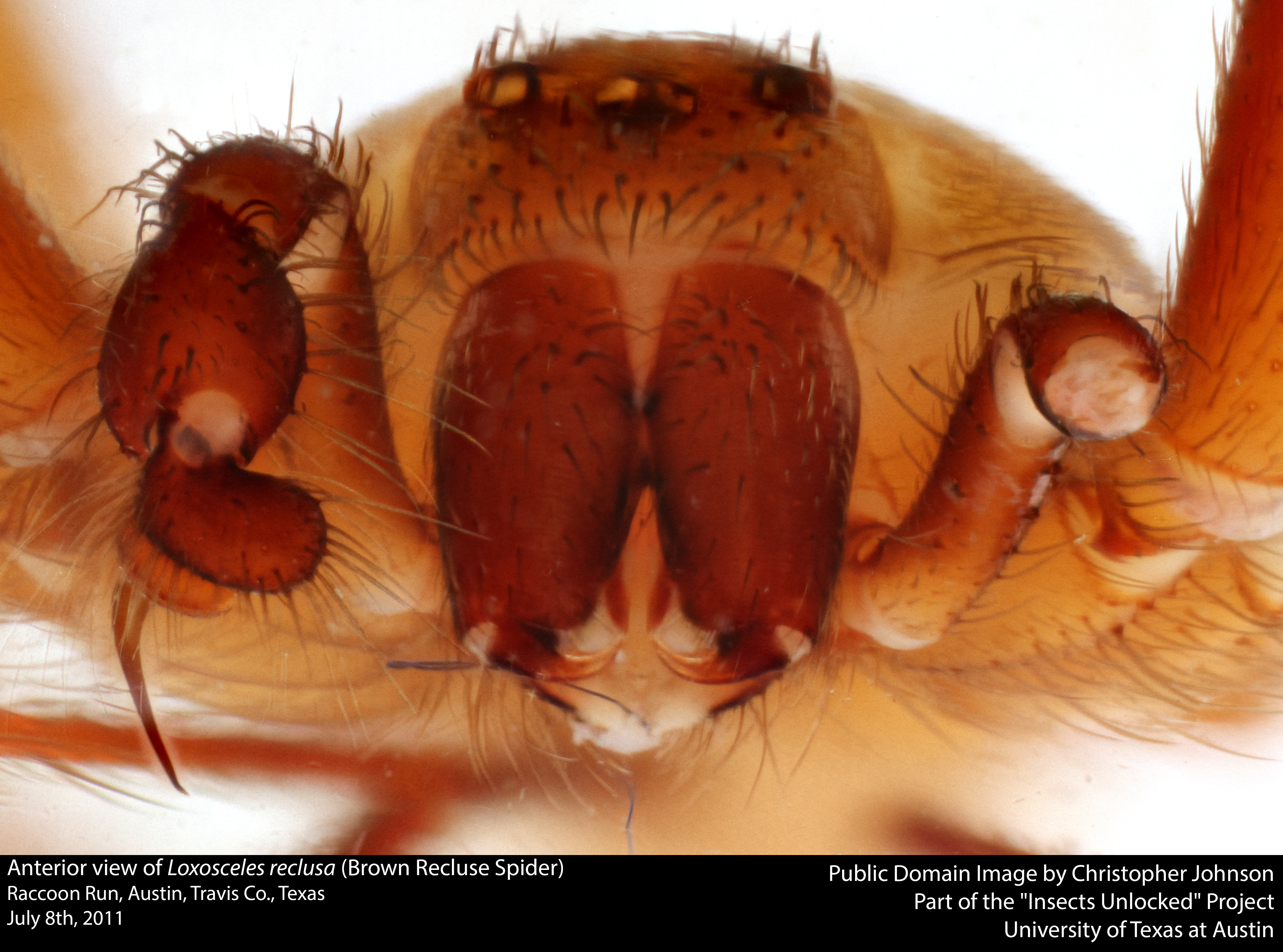 Anterior view of Loxosceles reclusa (Brown Recluse Spider) 6841 Raccoon Run, Austin, Travis Co., Texas July 8th, 2011 Public Domain Image by Christopher Johnson Part of the "Insects Unlocked" Project University of Texas at Austin